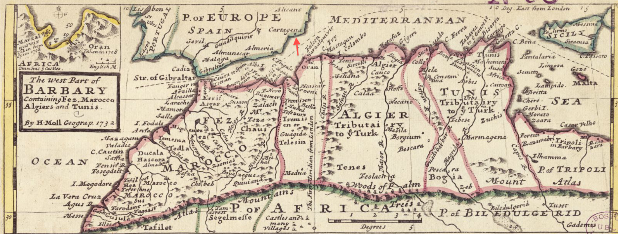 Detail of map: The west part of Barbary containing Fez, Marocco, Algiers and Tunis Author: Moll, Herman Publisher: Bowles, Thomas Date: 1736 Scale: [ca. 1:11,000,000]